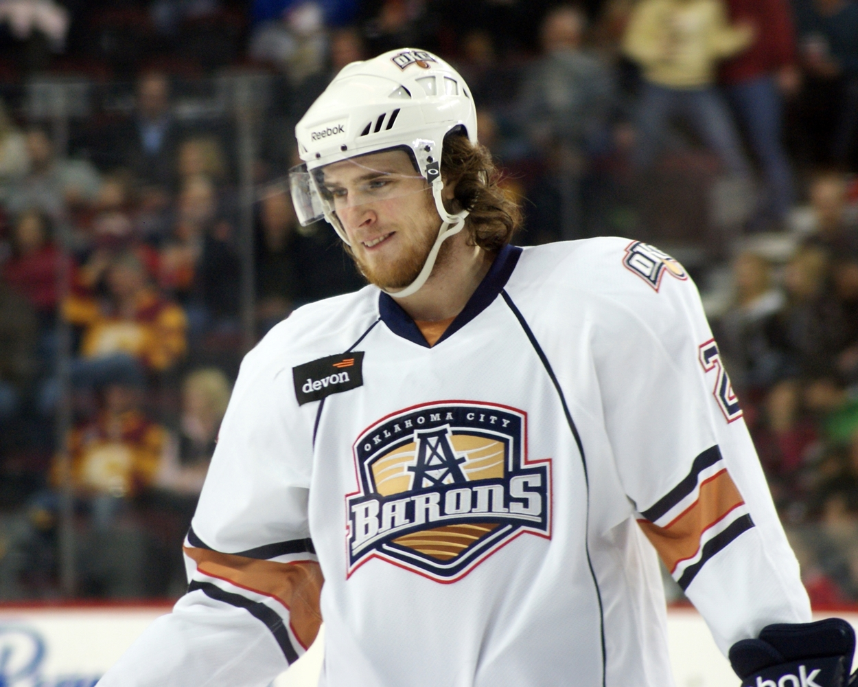 Ryan O'Marra, born June 9, 1987 Tokyo, Japan, is a Canadian professional ice hockey forward. He was selected by the New York Islanders in the 1st round, 15th overall, of the 2005 NHL Entry Draft. He has played in the National Hockey League (NHL) with the Edmonton Oilers. Photo was taken on February 18, 2011 during an American Hockey League (AHL) regular season game.